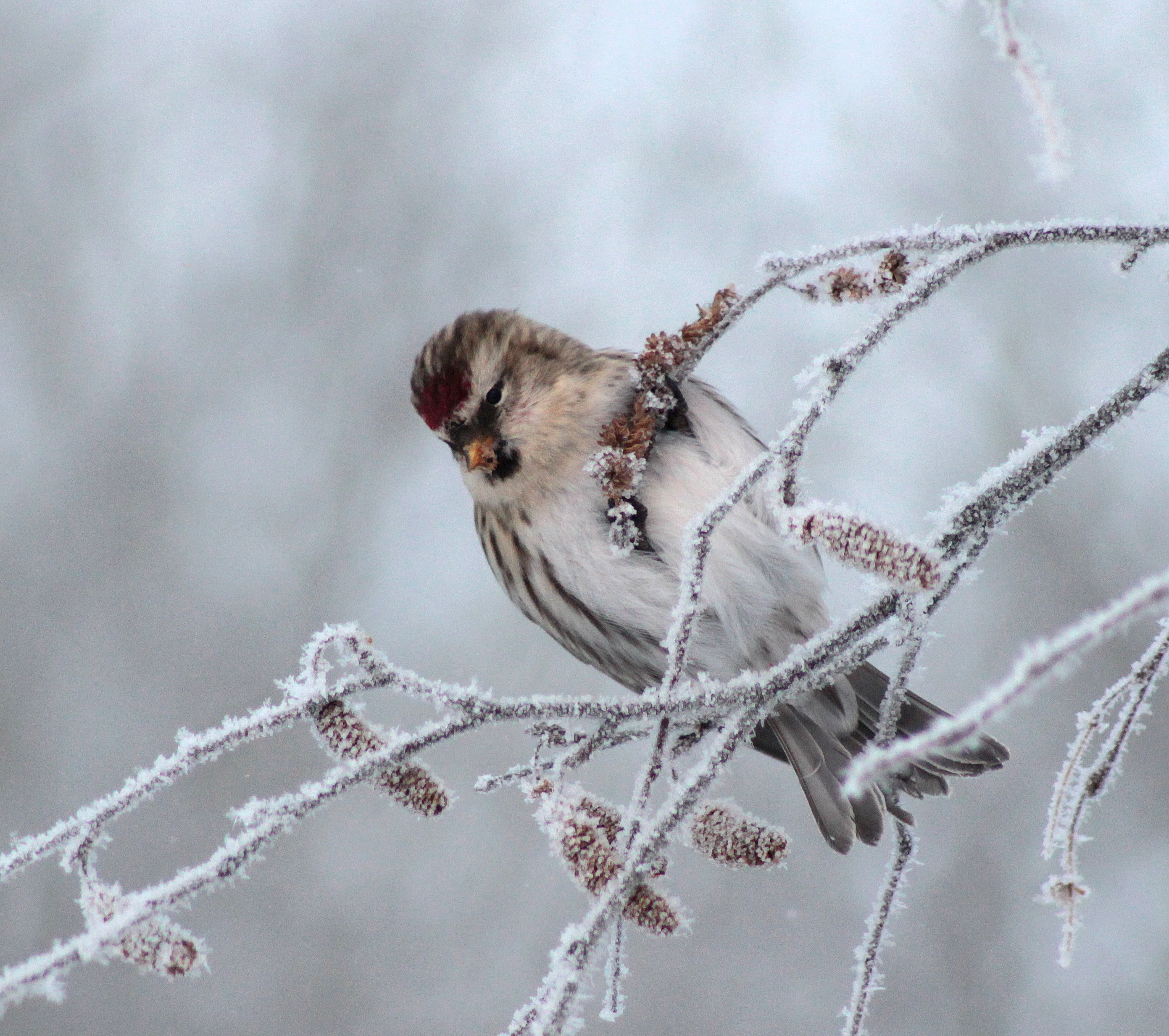 A common redpoll (Carduelis flammea) in Hupisaaret Islands park in Oulu, Finland.